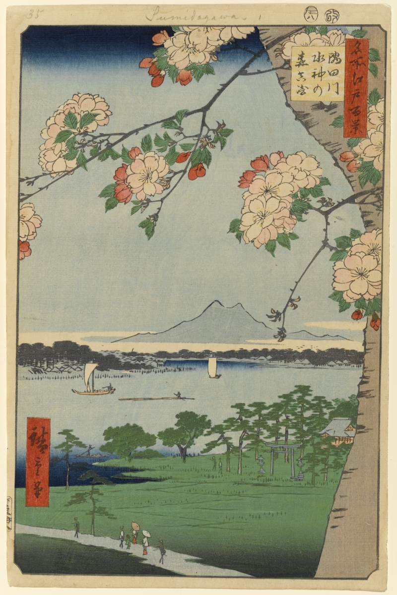 Part of the series One Hundred Famous Views of Edo, no. 035, part 1: Spring.